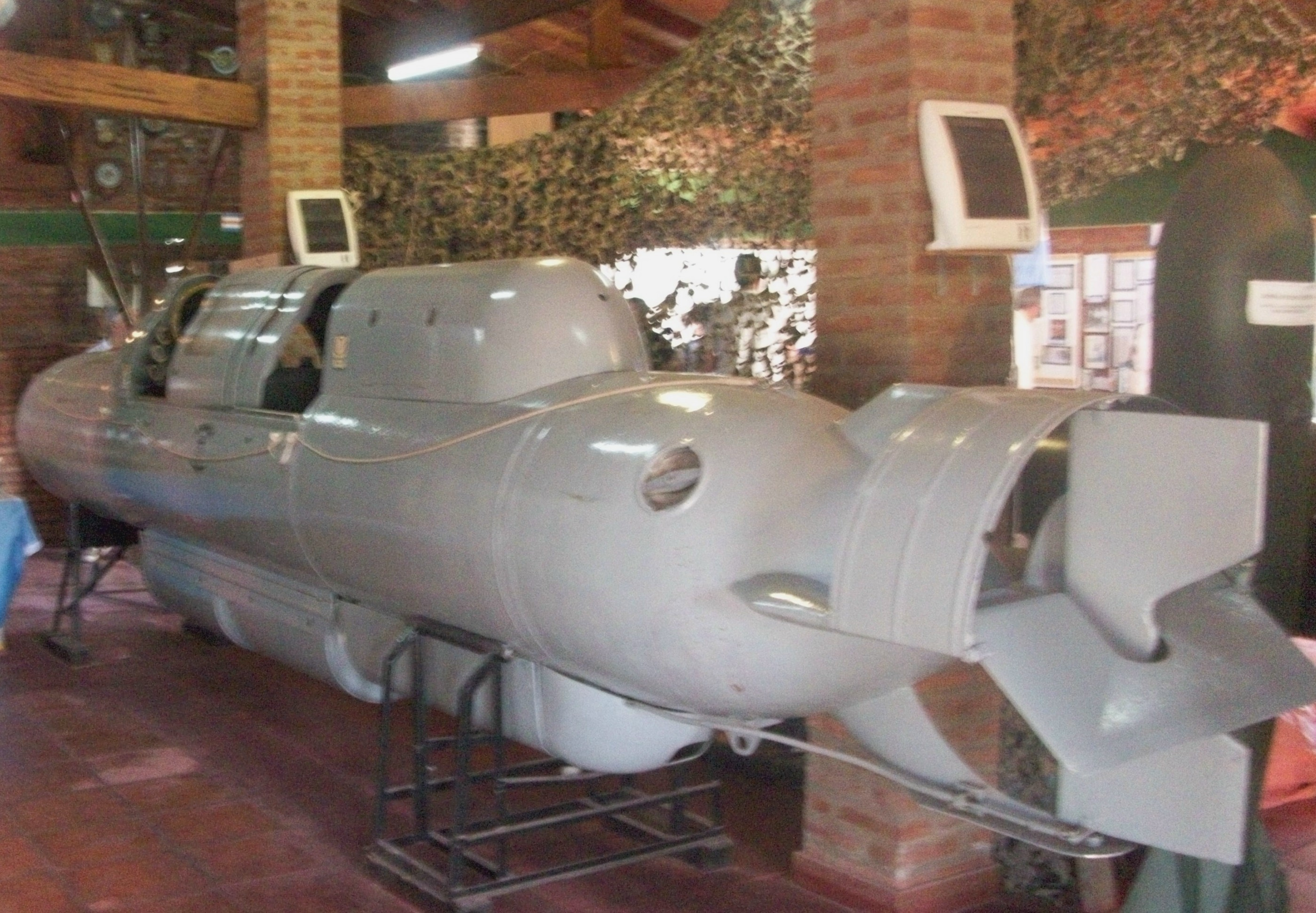 Manned torpedo used by the Argentine Navy, especially built for operations in cold waters.